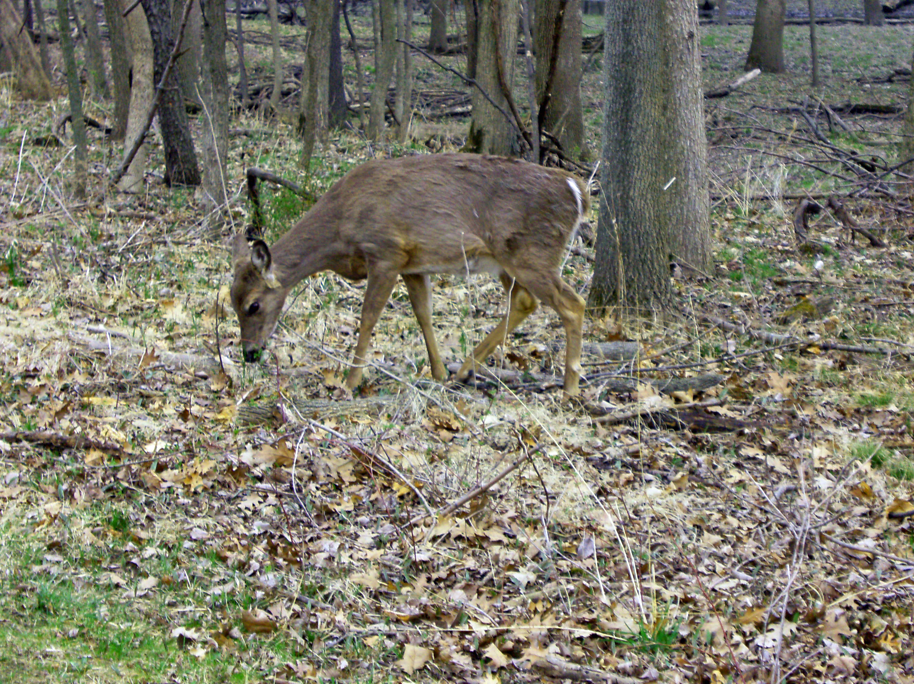 A fawn investigating the ground a few feet away from the North Branch Biking Trail (not pictured) located in Chicago, IL USA.